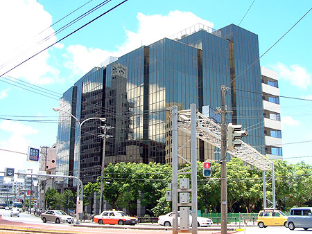 Kanehide Holdings Head Office